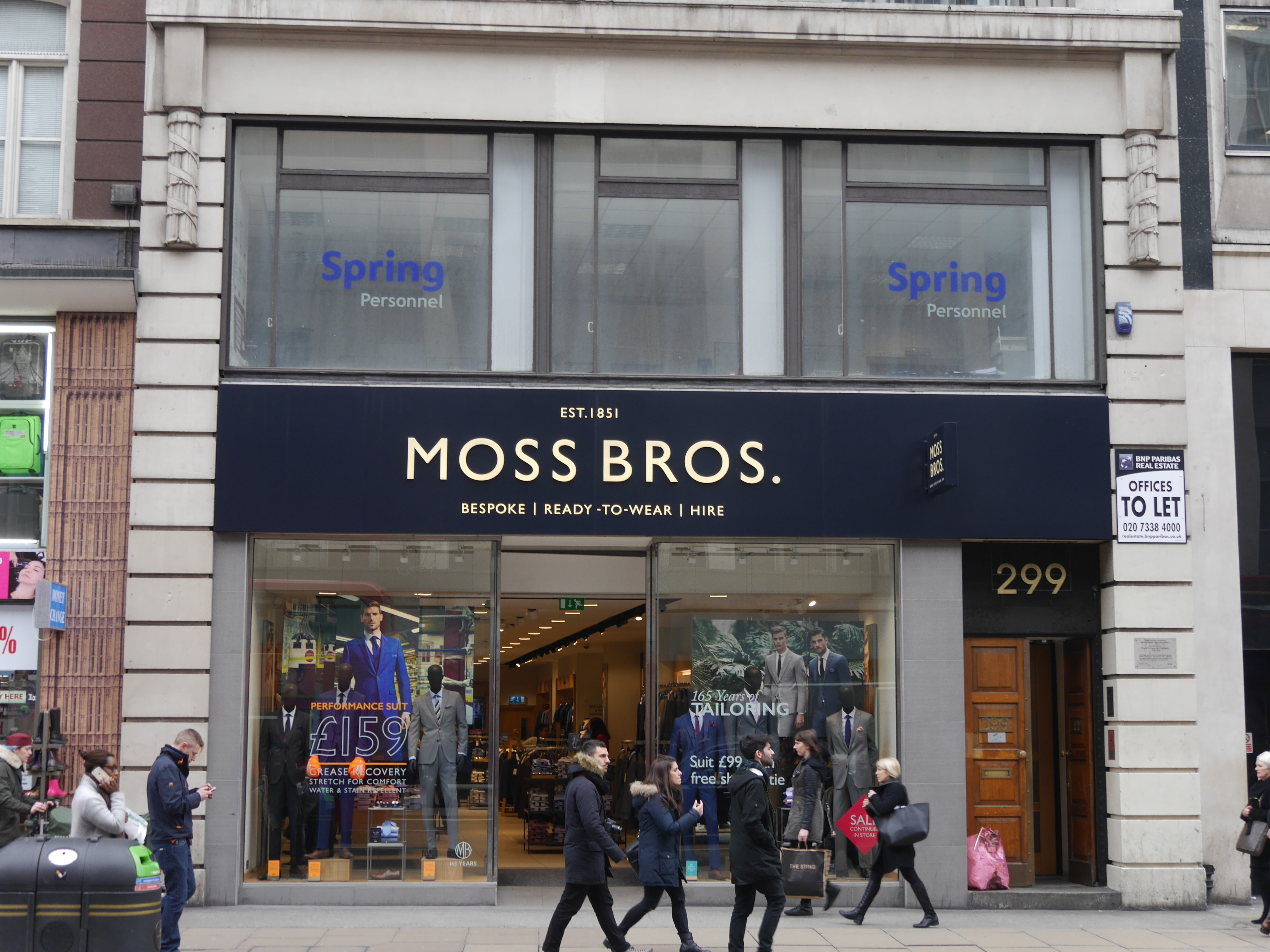 Oxford Street, London, March 2016